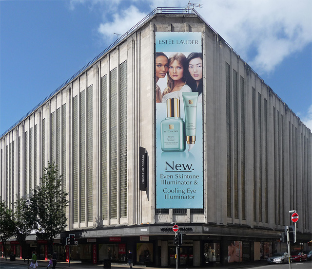 Designed by J.S. Beaumont and built in 1939, "unlike his usual work, or anything else in Manchester", observed Pevsner. He calls it a "sublimely monumental block ... in the German style of store architecture created by Messel early in the century, but stripped down. Windows are vertical strips of greenish glass blocks, with a barely perceptible camber introducing subtle curves and enlivening the stark [Portland stone] elevations with reflecting light." Grade II listed.